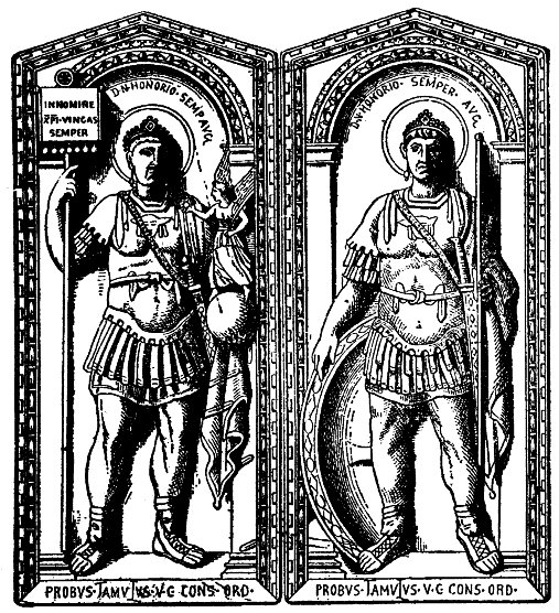 Emperor Honorius and consul Anicius Petronius Probus, ancient roman ivory relief